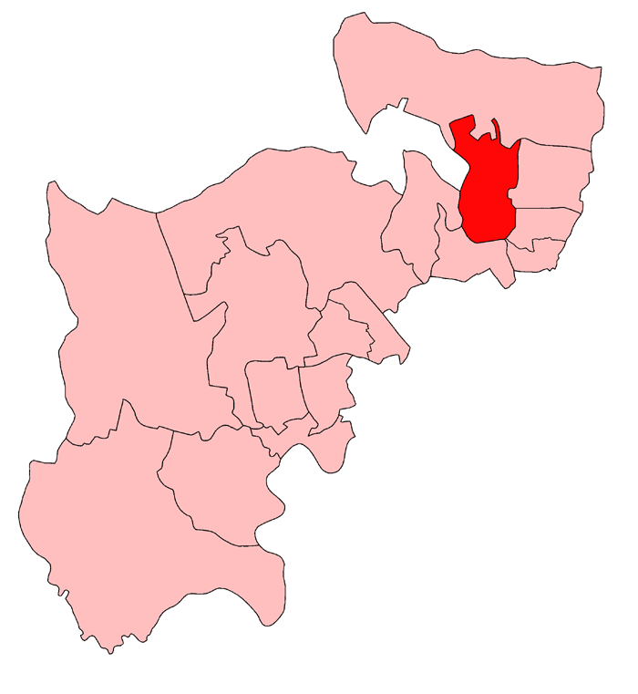 A map of Wood Green constituency within Middlesex, as it existed from 1918 to 1950.